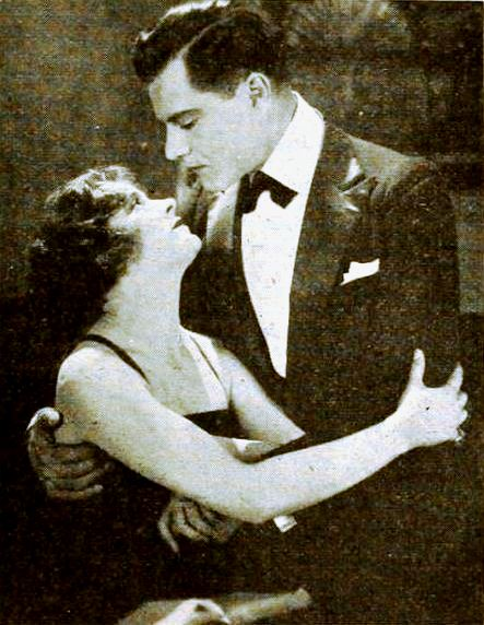 Still for the American drama film Blackie's Redemption (1919) with Alice Lake and Bert Lytell, on page 575 of the April 26, 1919 Moving Picture World.